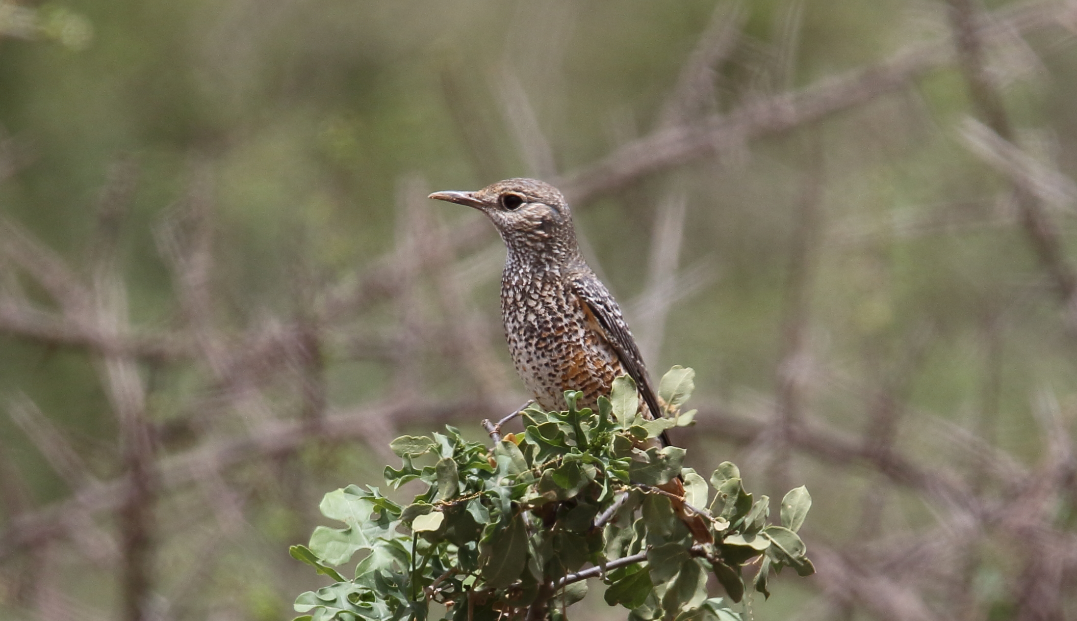 Common Rock-Thrush (Monticola saxatilis) f